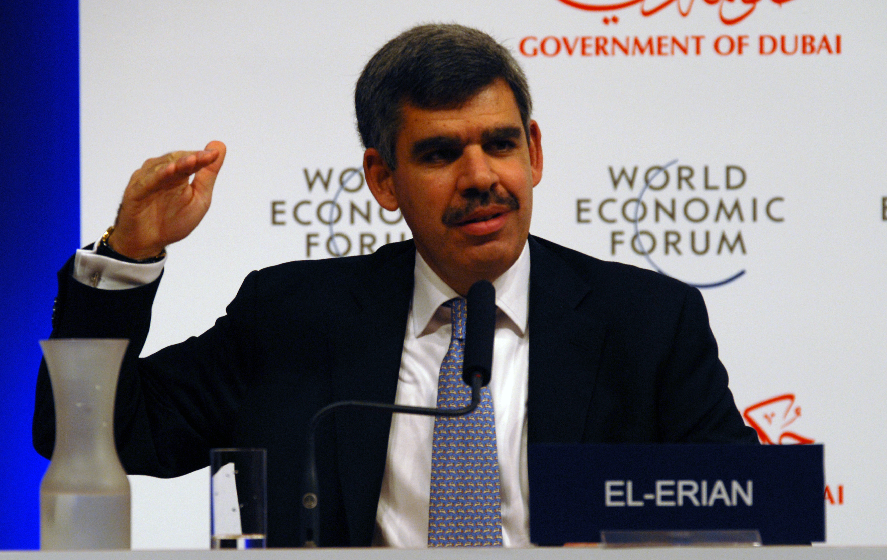 Mohamed A. El-Erian, Managing Director of the Pacific Investment Management Company, speaking at the World Economic Forum Summit on the Global Agenda 2008 in Dubai, United Arab Emirates.